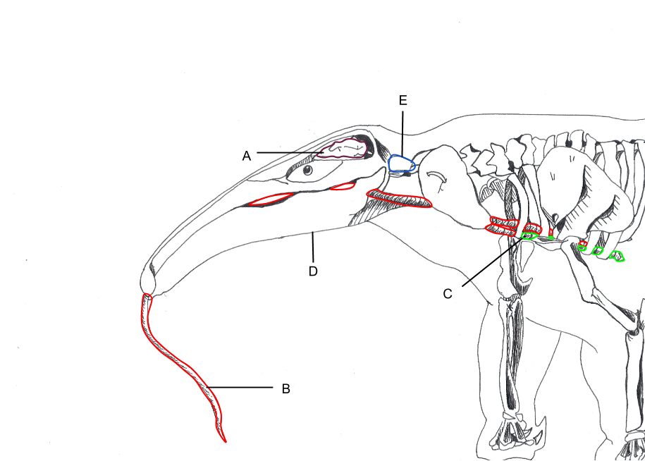 Seen here is a diagram of the posterior part of an anteater. It is observable that the tongue of the anteater is attached directly to the sternum unlike most of the mammals, whose tongues are usually attached to the hyoid bone. Anteaters' tongues, on average, are 2 ft long. A. Brain B. Tongue C. Sternum D. Skull E. Hyoid bone